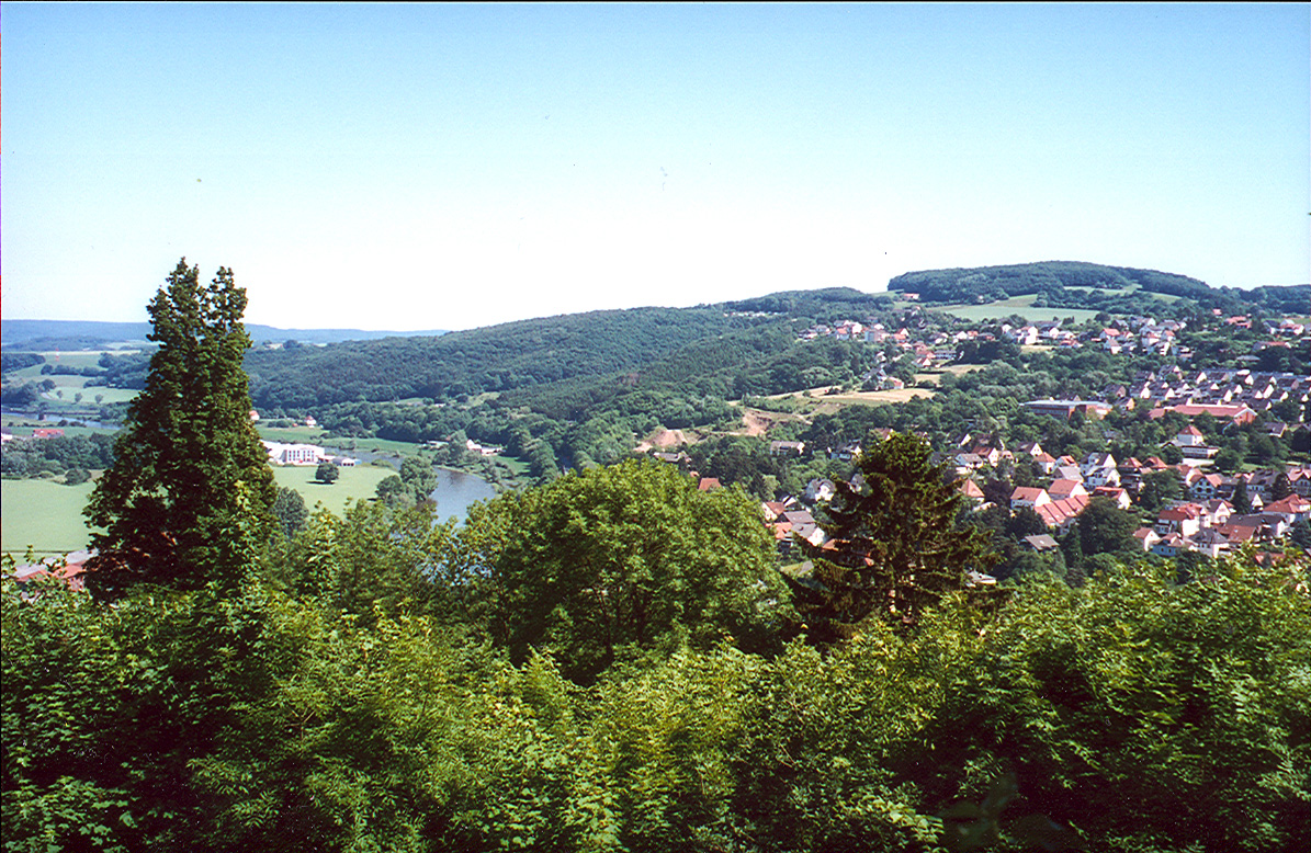 View from the castle on the Amthausberg in Vlotho, North Rhine-Westphalia, Germany, to the river Weser and the Winterberg. On the right of the river Weser is Vlotho itself, on the left is Uffeln.